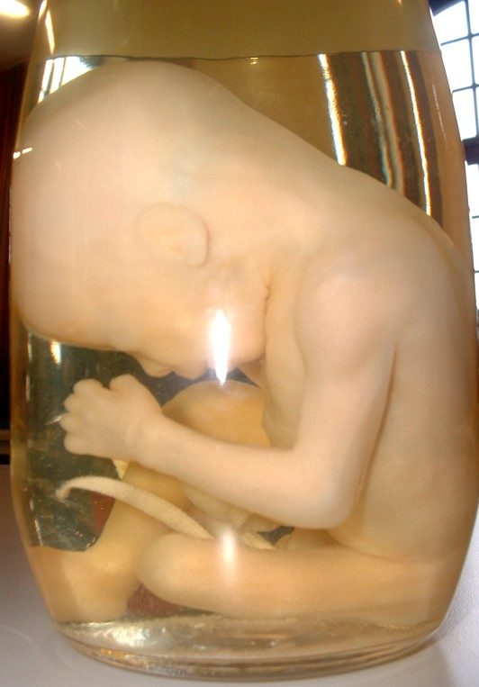 Photo taken by myself at the Krankenpflegerschule Eupen / Belgium